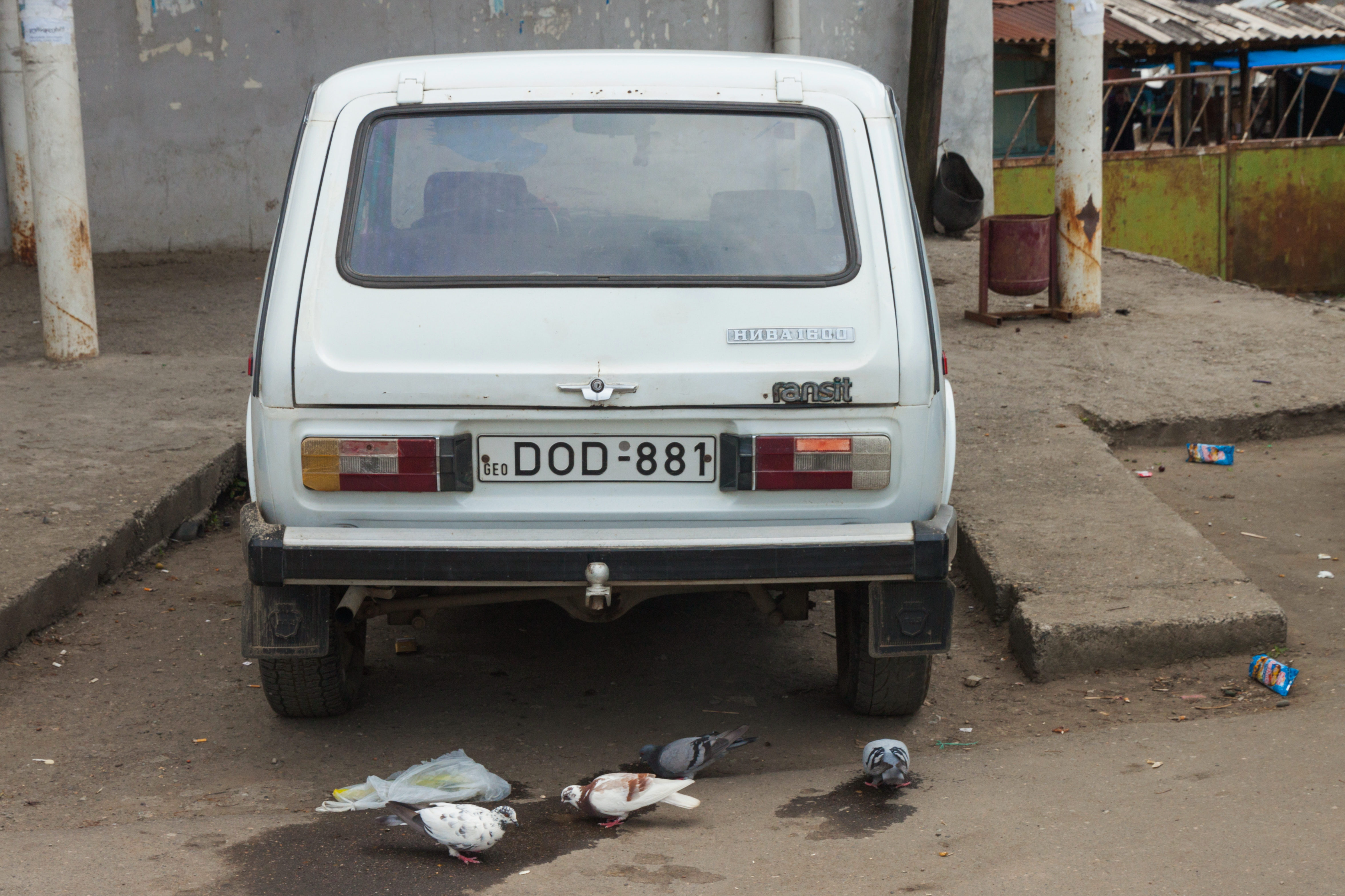 Lada Niva 1600 at the bus station. Tsqaltubo, Imereti, Georgia.